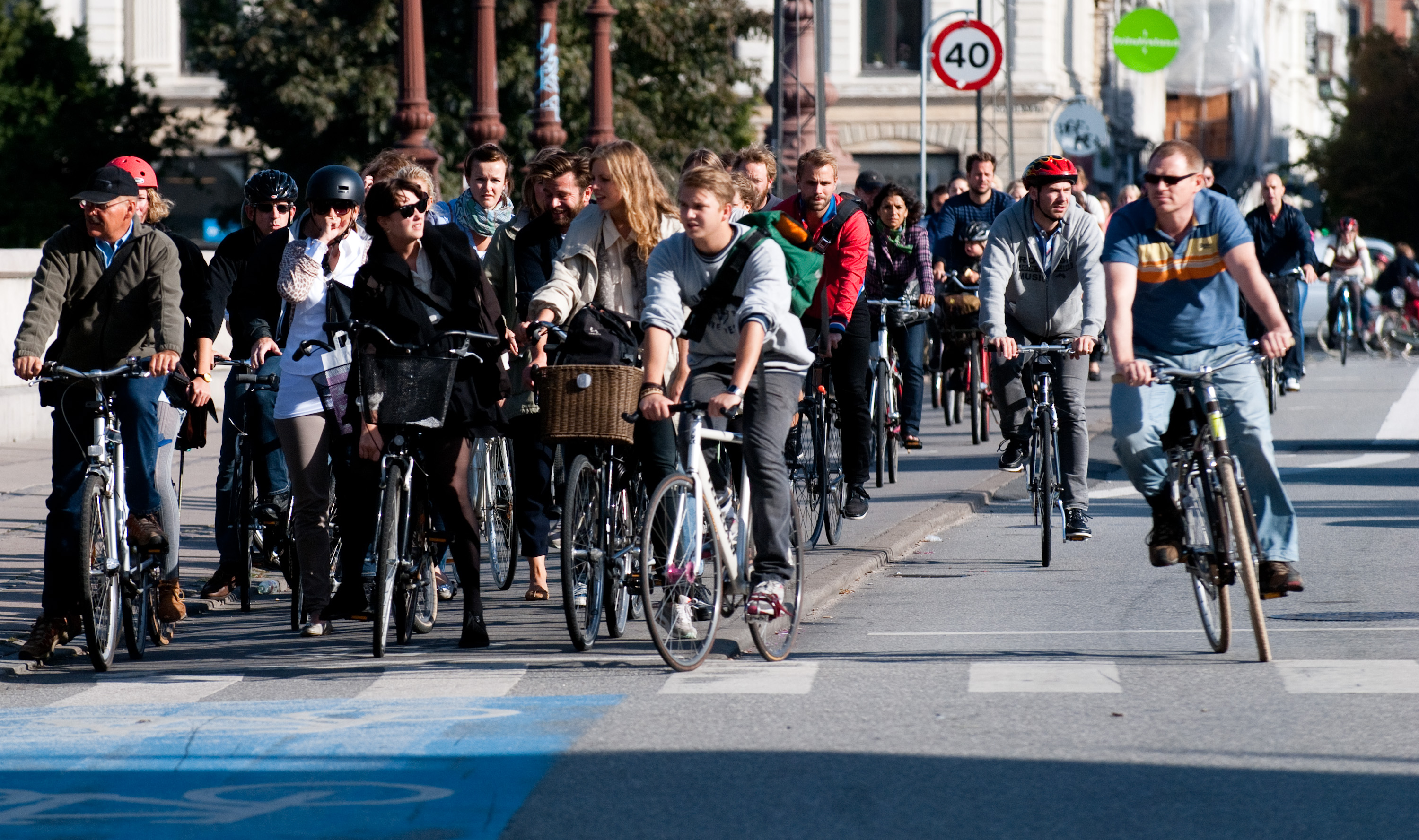 Cyclists in Copenhagen waiting for a green signal.